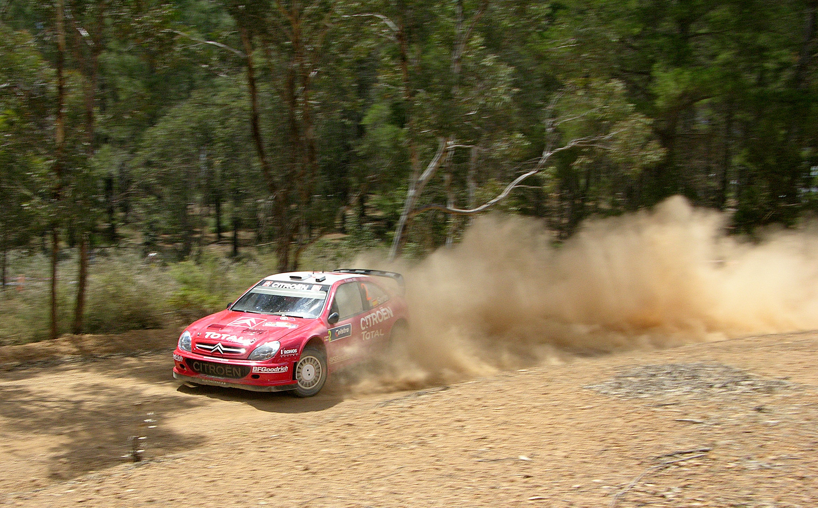 Dani Sordo kicks up dust with his Kronos Total Citroën Xsara on the Bannister Central II special stage during the third day of the Telstra Rally Australia 2006.